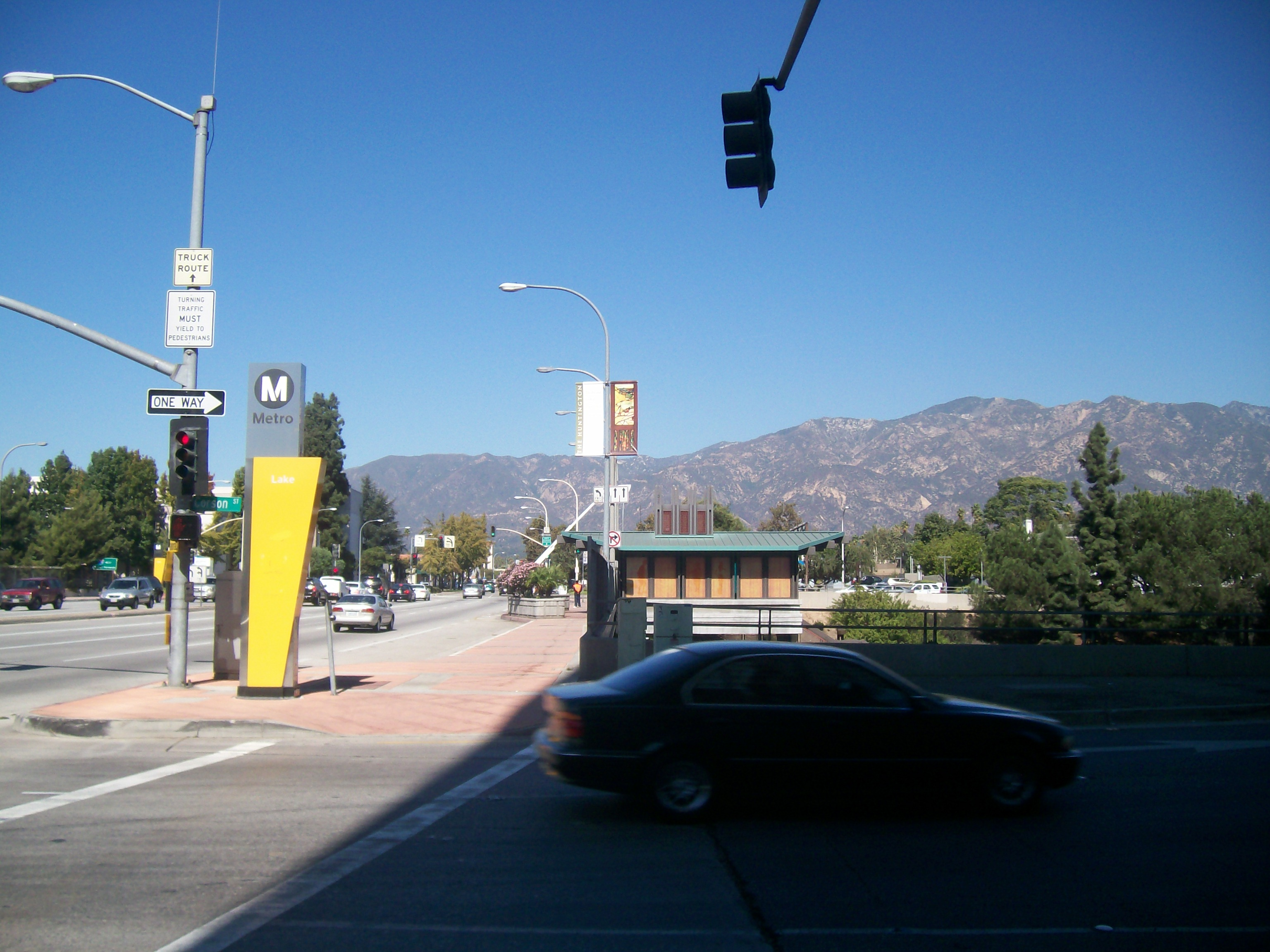 Metro Gold Line Lake Station entrance on North Lake Avenue in Pasadena, California.